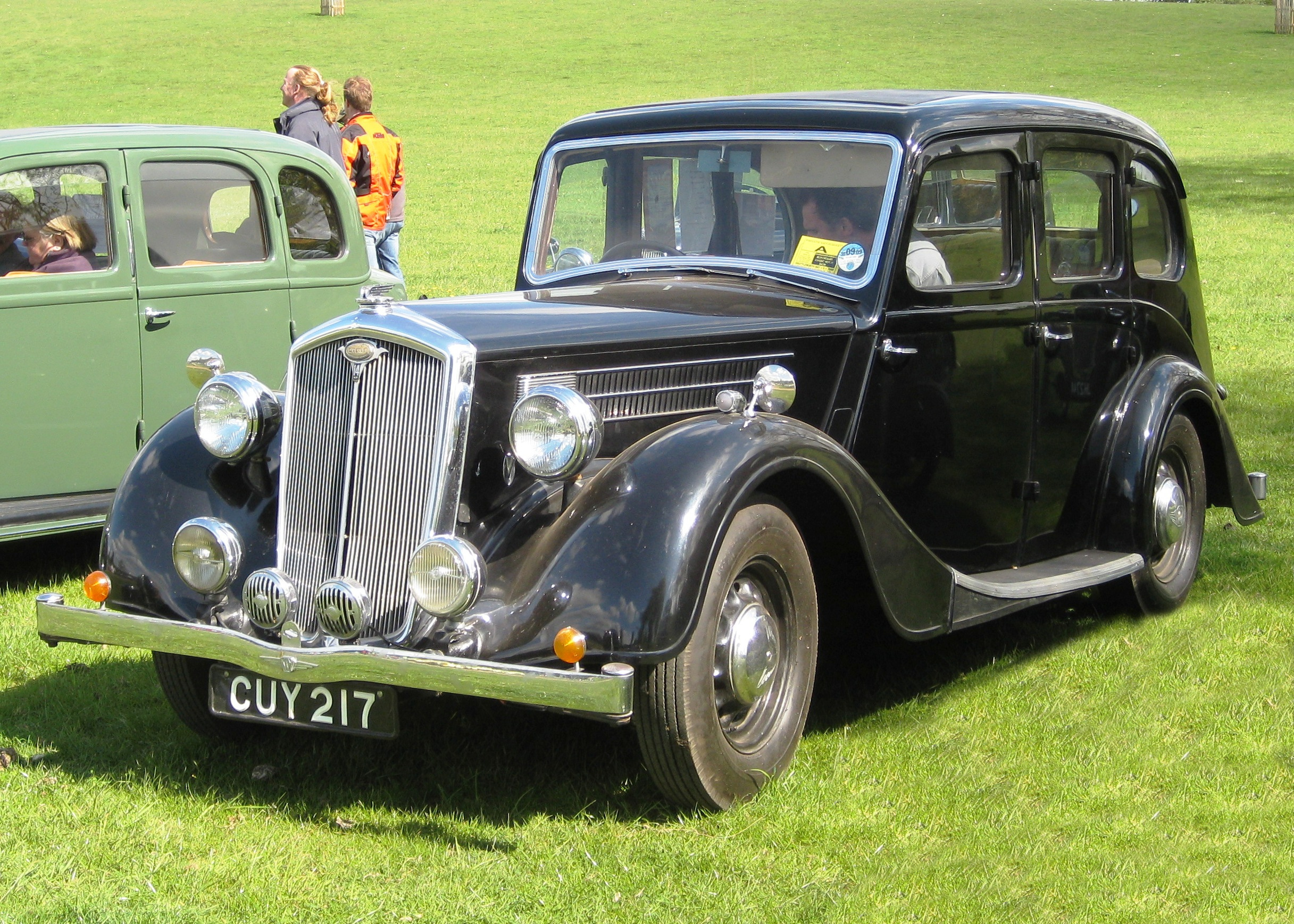 Wolseley 14/60 near Biggleswade (DVLA) first registered 27 October 1938, 1701cc